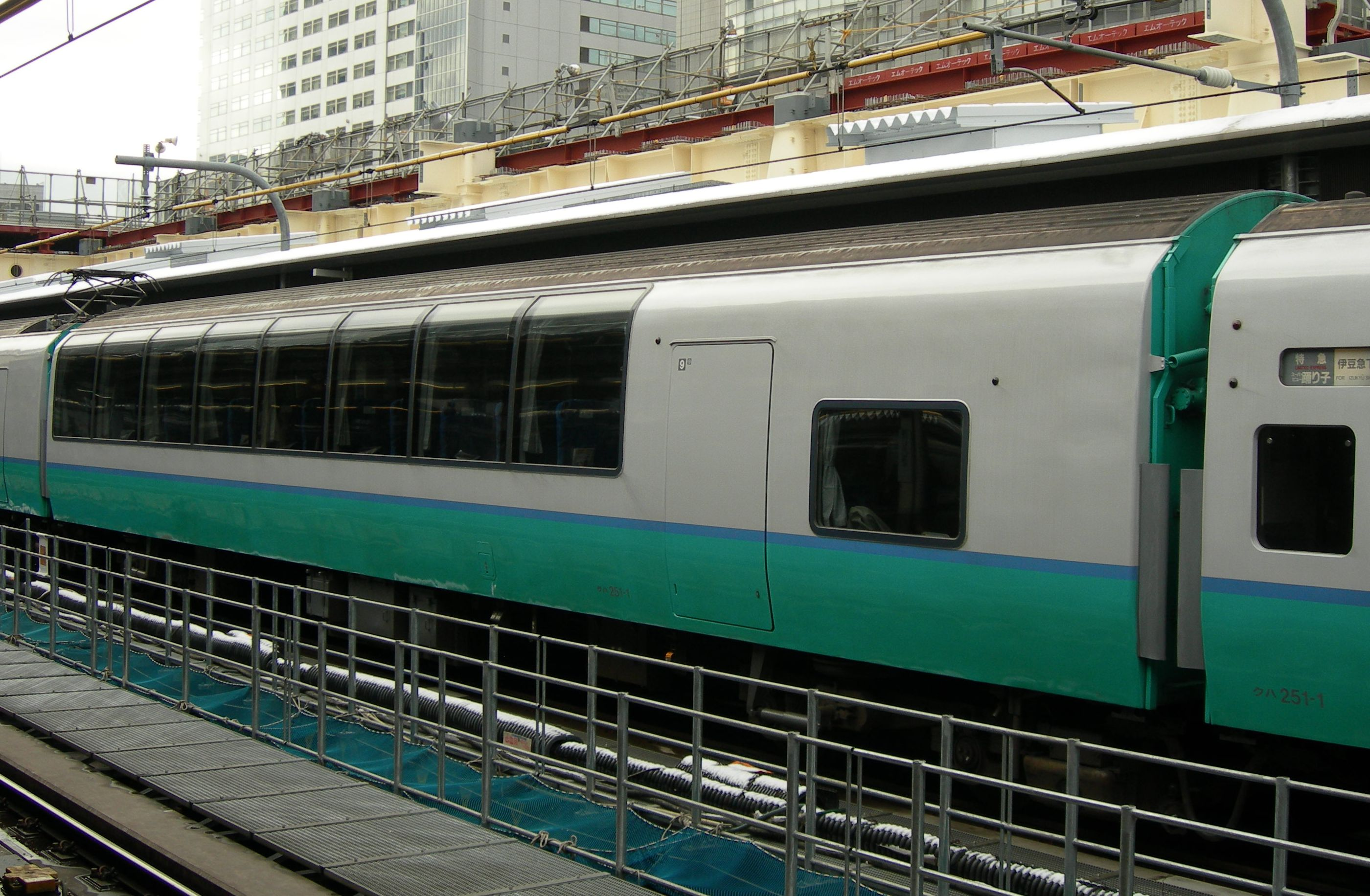 JR East 251 series EMU car SaHa 251-1 (car 9 of set RE1) at Shinjuku Station